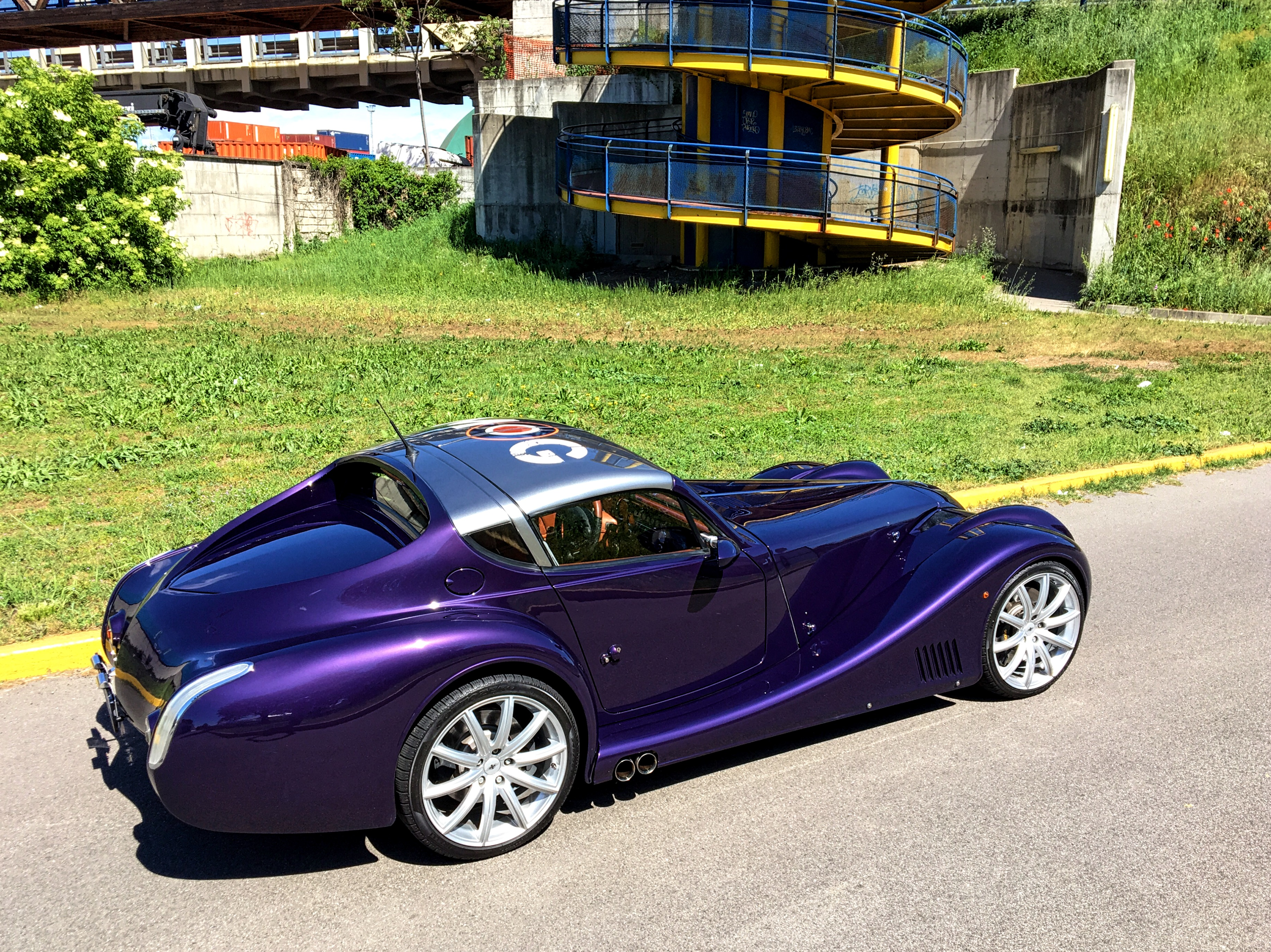 Morgan Aero Supersports 2010 rear